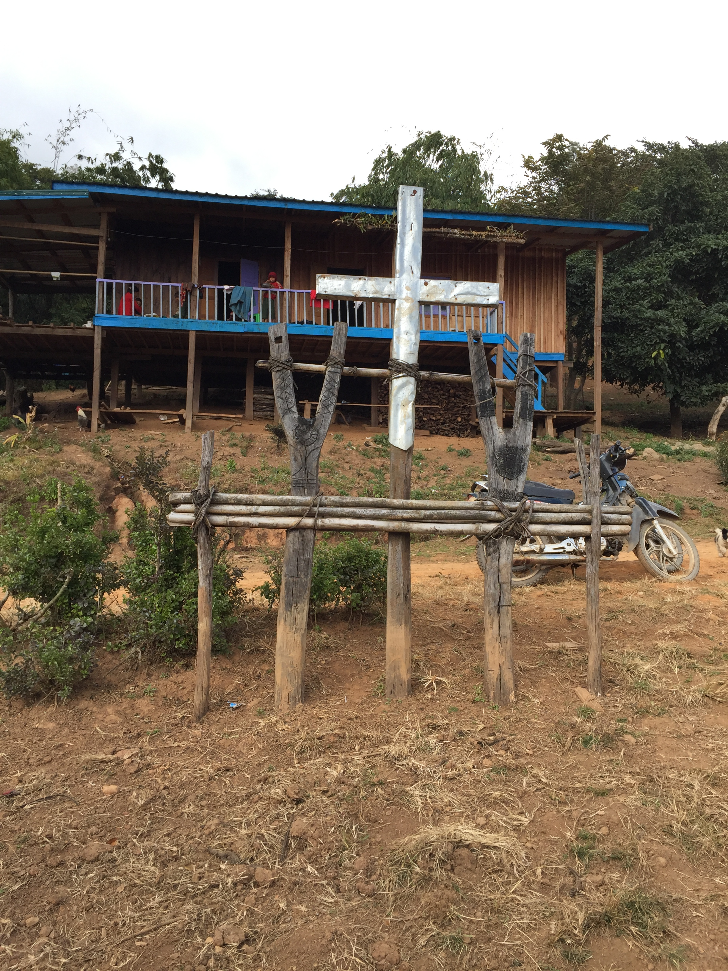 Na Nauk Chi Tine from a Chin village, the sacrificial pillar where gayal is tied မြန်မာဘာသာ: နွားနောက်ချည်တိုင်၊ မကျောက်အား ကျေးရွာ